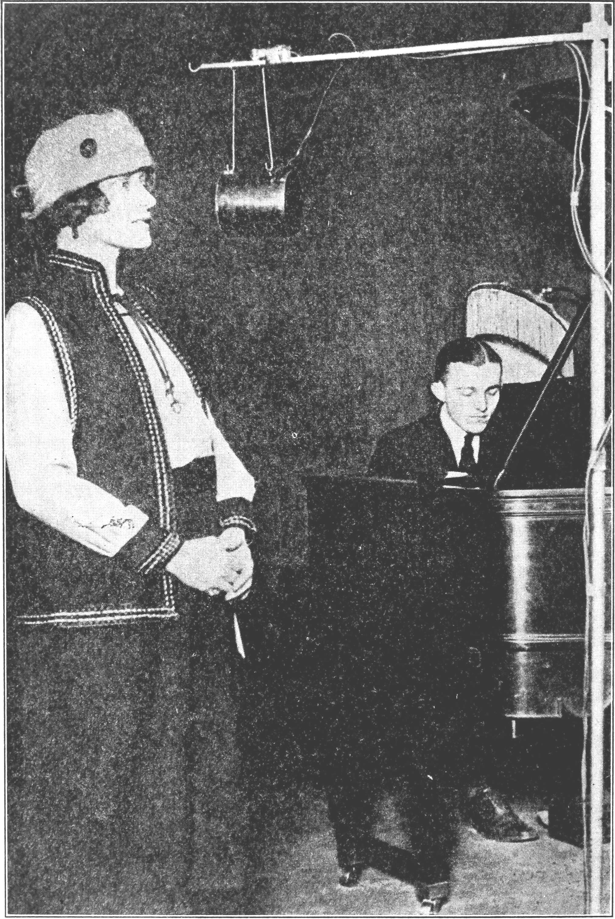 Original caption: "SHE SINGS 100,000 CHILDREN TO SLEEP EVERY NIGHT Have you listened to sweet lullabies that come floating over the radio? If not, you are missing something. Almost every night she sends out her lullaby music over The Westinghouse Electric Company's radio at Chicago. Photo shows Miss Forster singing for her audience of a hundred thousand."